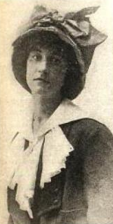 A young white woman wearing a large hat; her suit involves a white blouse with a complicated collar or scarf across her upper torso.